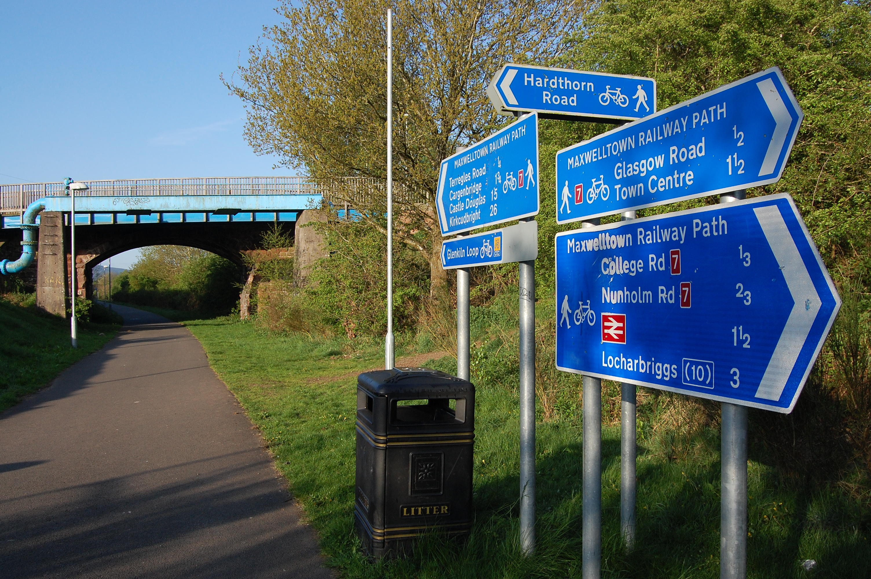 Maxwelltown Railway Path in Dumfries, a cycle and pedestrian route on the site of a disused railway track. Unaltered photo.